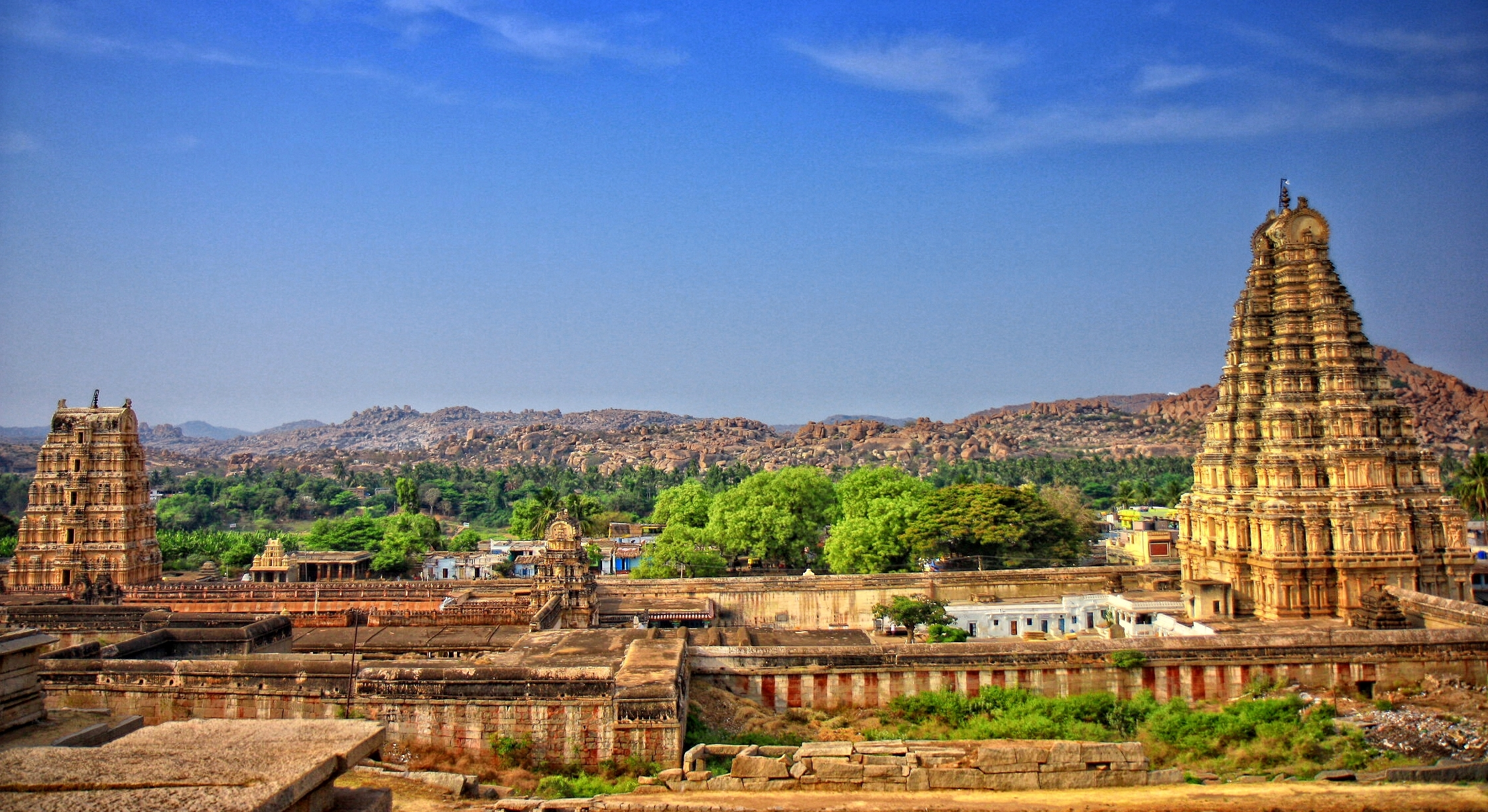 The Virupaksha or the Pampapathi temple is the main center of pilgrimage at Hampi. It is fully intact, and it incorporates some earlier structures. This temple has three towers, the eastern tower rises to a height of 160 feet and is nine tiered. It dates back to the first half of the fifteenth century and was renovated in the sixteenth century by Krishnadevaraya.